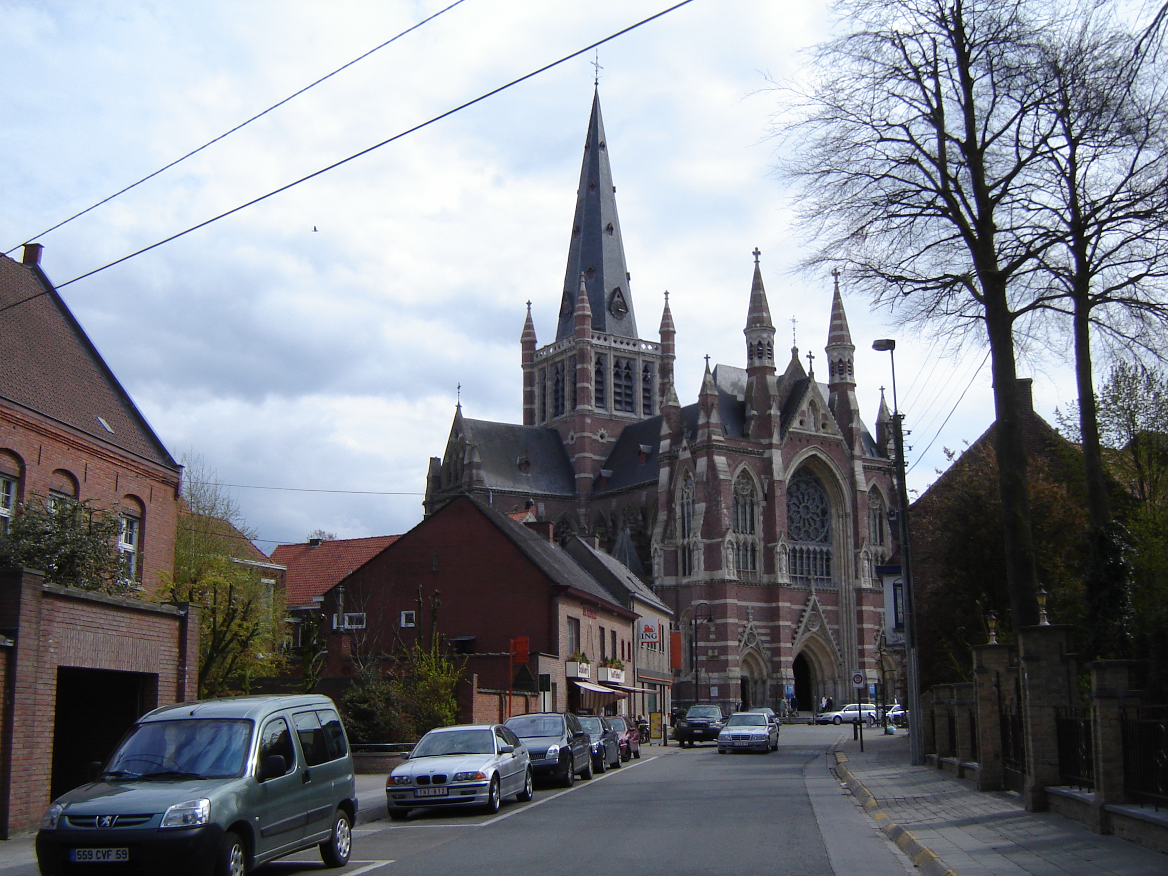 View on the town center and the basilica by the Moorsledestraat street in Dadizele, Moorslede, West Flanders, Belgium